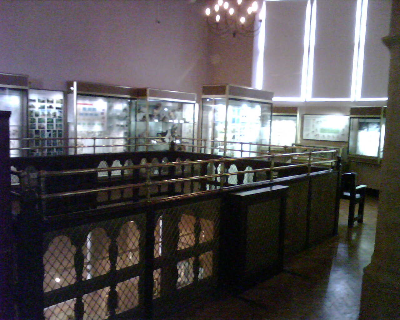 The first floor of the Eton College Natural History Museum. The picture is of very poor quality.